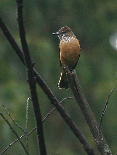 Streak-throated Bush-tyrant (Myiotheretes striaticollis) SW of Quito, Ecuador 3/24/2007